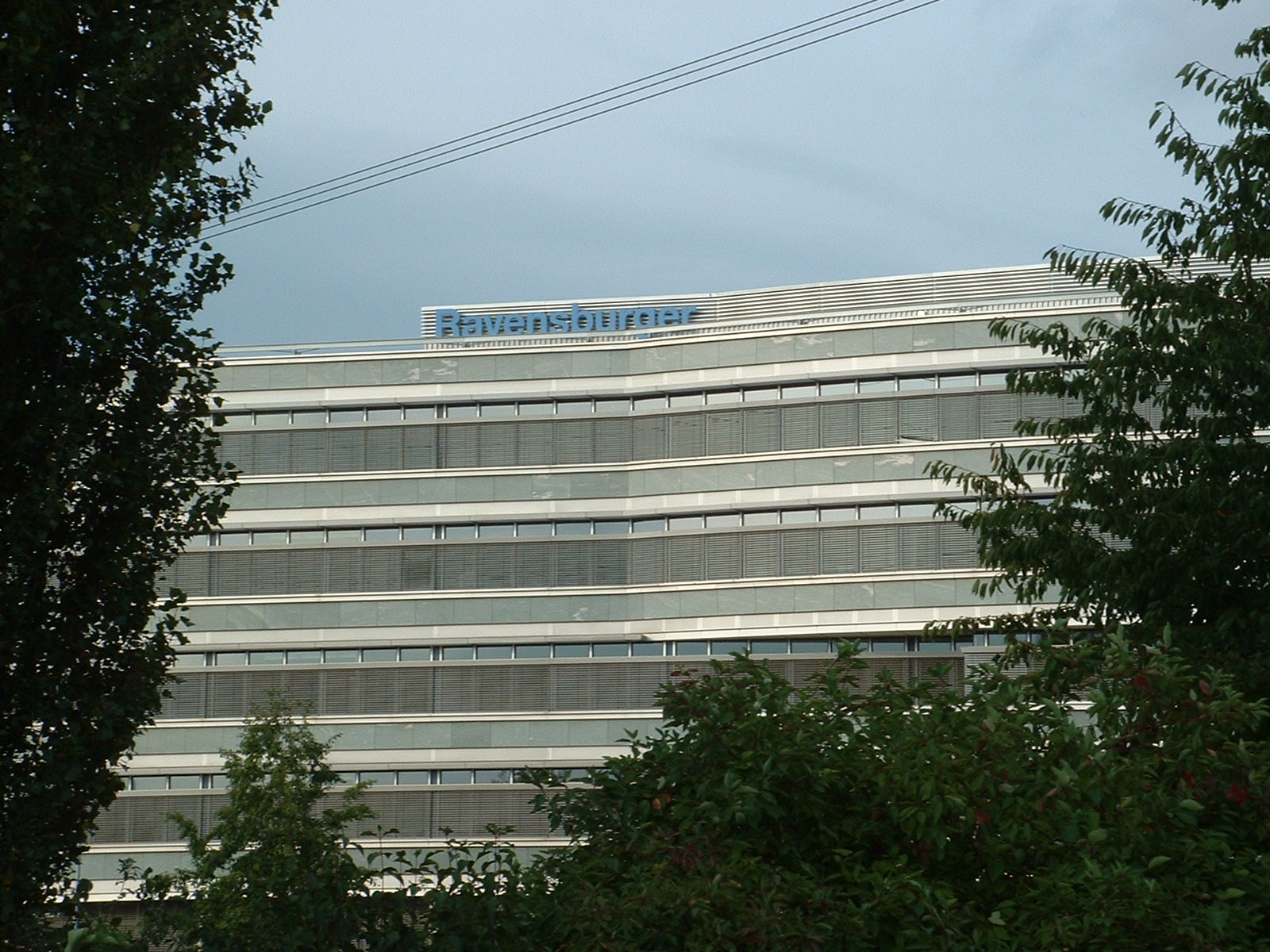 Headquarters of Ravensburger publishing house in Ravensburg, Germany